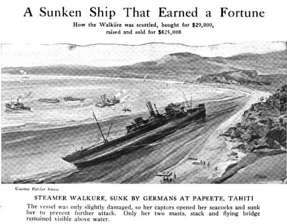 A Sunken Ship That Earned a Fortune How the Walküre was scuttled, bought for $29,000, raised and sold for $825,000 Steamer Walküre, sunk by Germans at Papeete, Tahiti The vessel was only slightly damaged, so her captors opened her seacocks and sunk her to prevent further attack. Only her two masts, stack and flying bridge remained visible above water. From Frank Coffee's 1920 book Forty Years On the Pacific